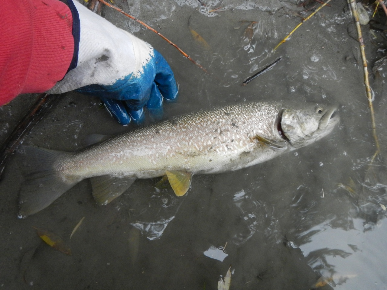 Marble trout (Salmo marmoratus) caught in the river Adige, Italy